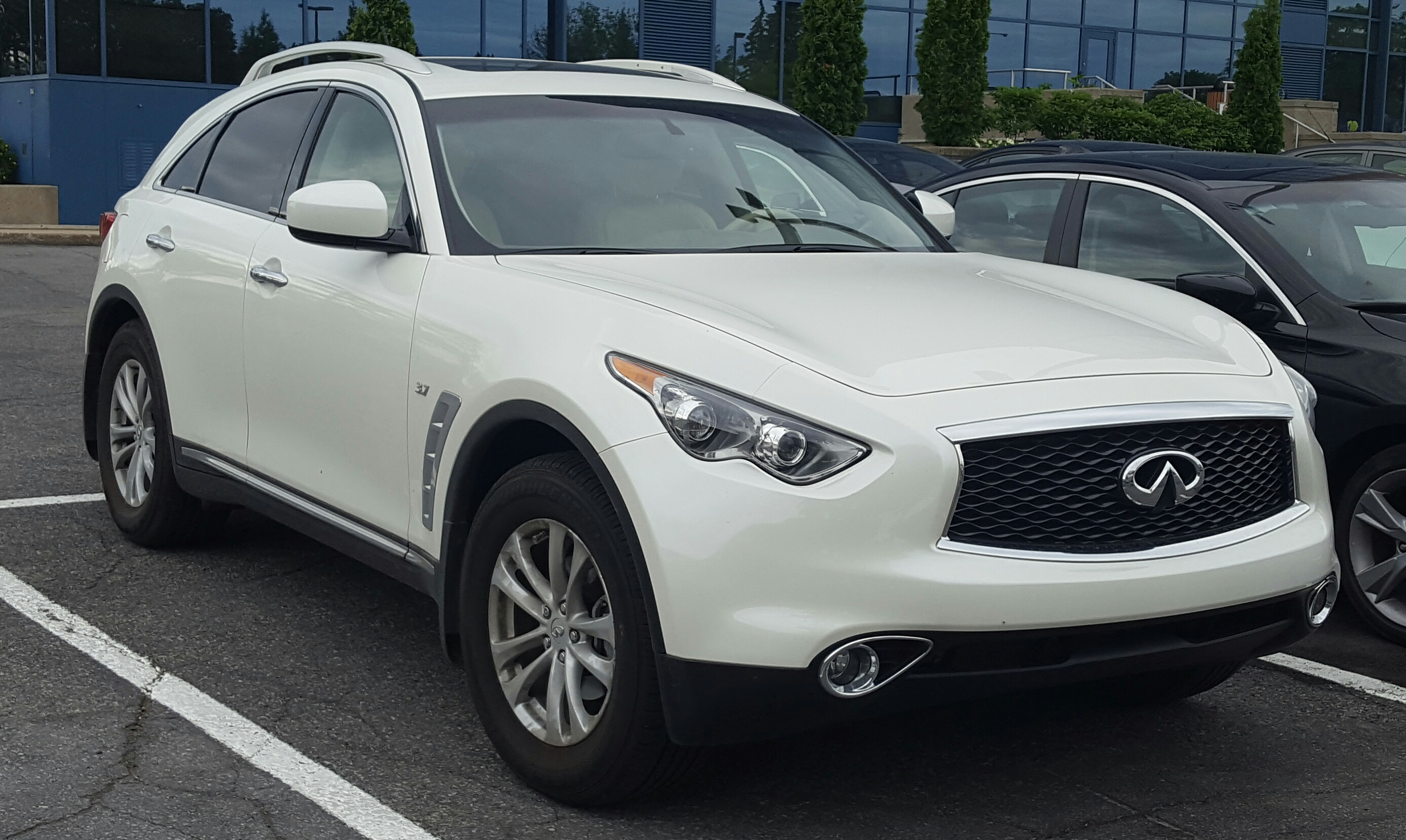 2017 Infiniti QX70 photographed in Pointe-Claire , Québec, Canada.